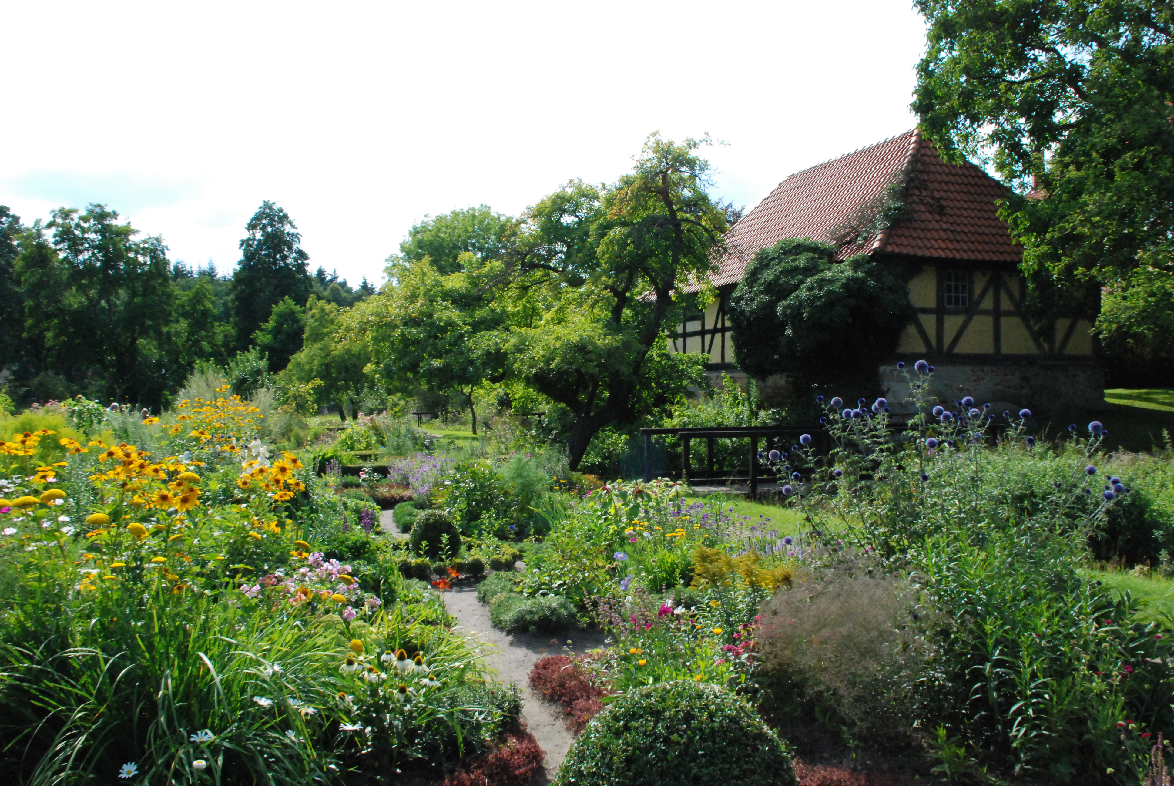 Garden of Kloster Mariensee, Lower Saxony, Germany